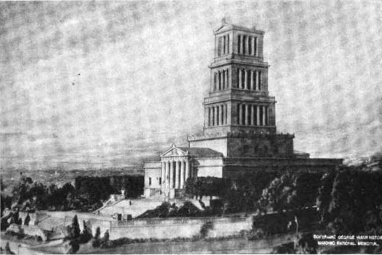 Photograph from the side of a cardboard model of the proposed George Washington National Masonic Memorial, Harvey Wiley Corbett architect. This image was published in Pencil Points magazine, May 1922.